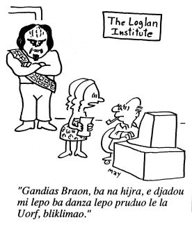 This cartoon by Rex May adorned the cover of Lognet 89/1.